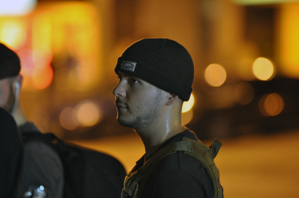 Tim Pool of Vice News.